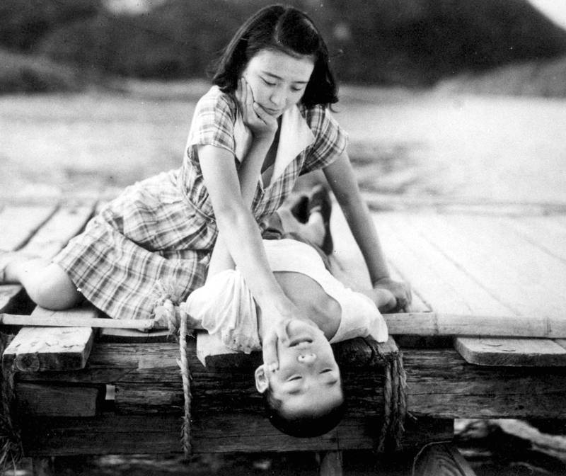 Yuiko Nomura (the girl) in Mikaeri no tō (みかへりの搭) directed by Hiroshi Shimizu - 1941